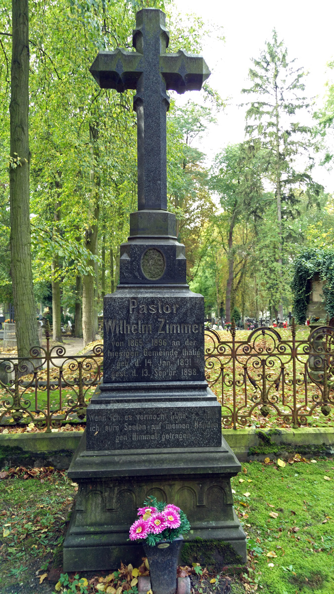 Lutheran Cementary in Pabianice, Poland, 2016